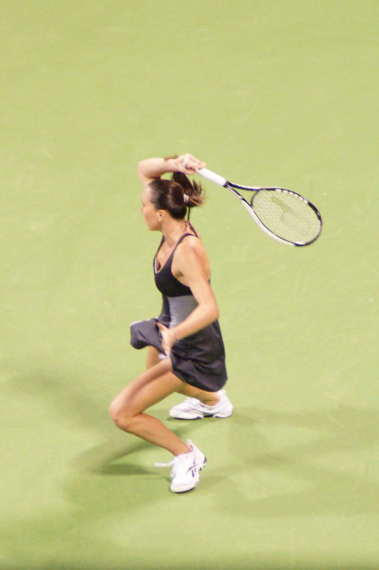 Jelena Jankovic at the 2008 WTA Tour Championships